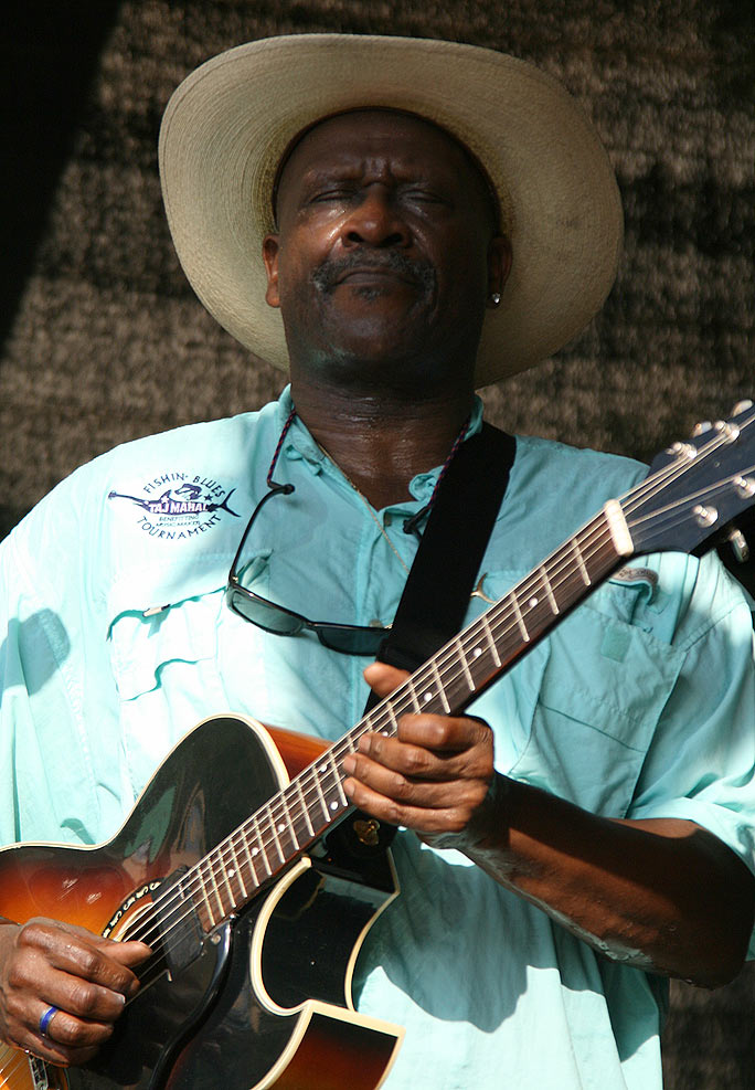 Blues musician Taj Mahal at the Museumsquartier in Vienna (Jazz-Fest Wien)